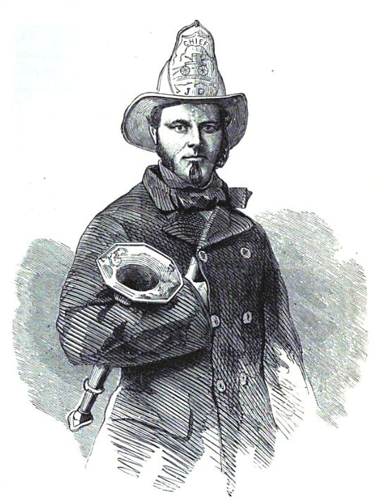 An 1863 illustration of John Decker, fire chief of the New York Volunteer Fire Brigade, as appearing in "Reminiscences of the Old Fire Laddies and Volunteer Fire Departments of New York and Brooklyn" (1885). Uploaded per request at WP:IFU